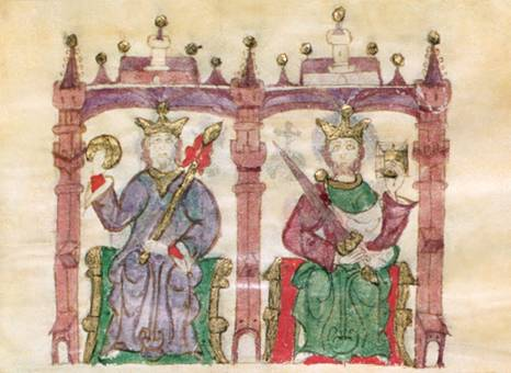 Liuva I (568–572) and Liuvigild (569–586)